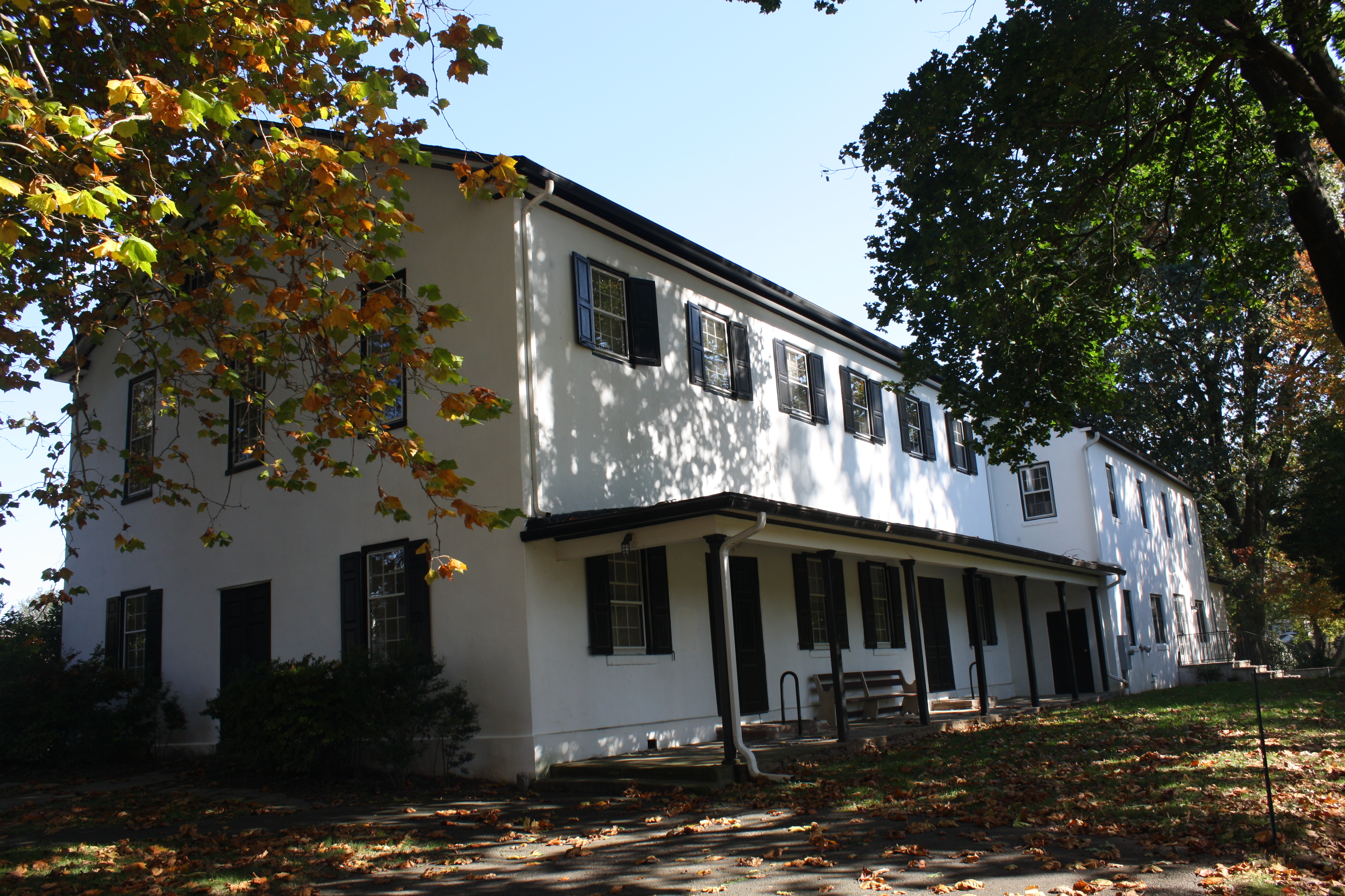 Newtown Friends Meetinghouse and Cemetery is a historic Quaker meetinghouse and cemetery in Newtown, Bucks County, Pennsylvania. Object location40° 13′ 32″ N, 74° 56′ 10″ W